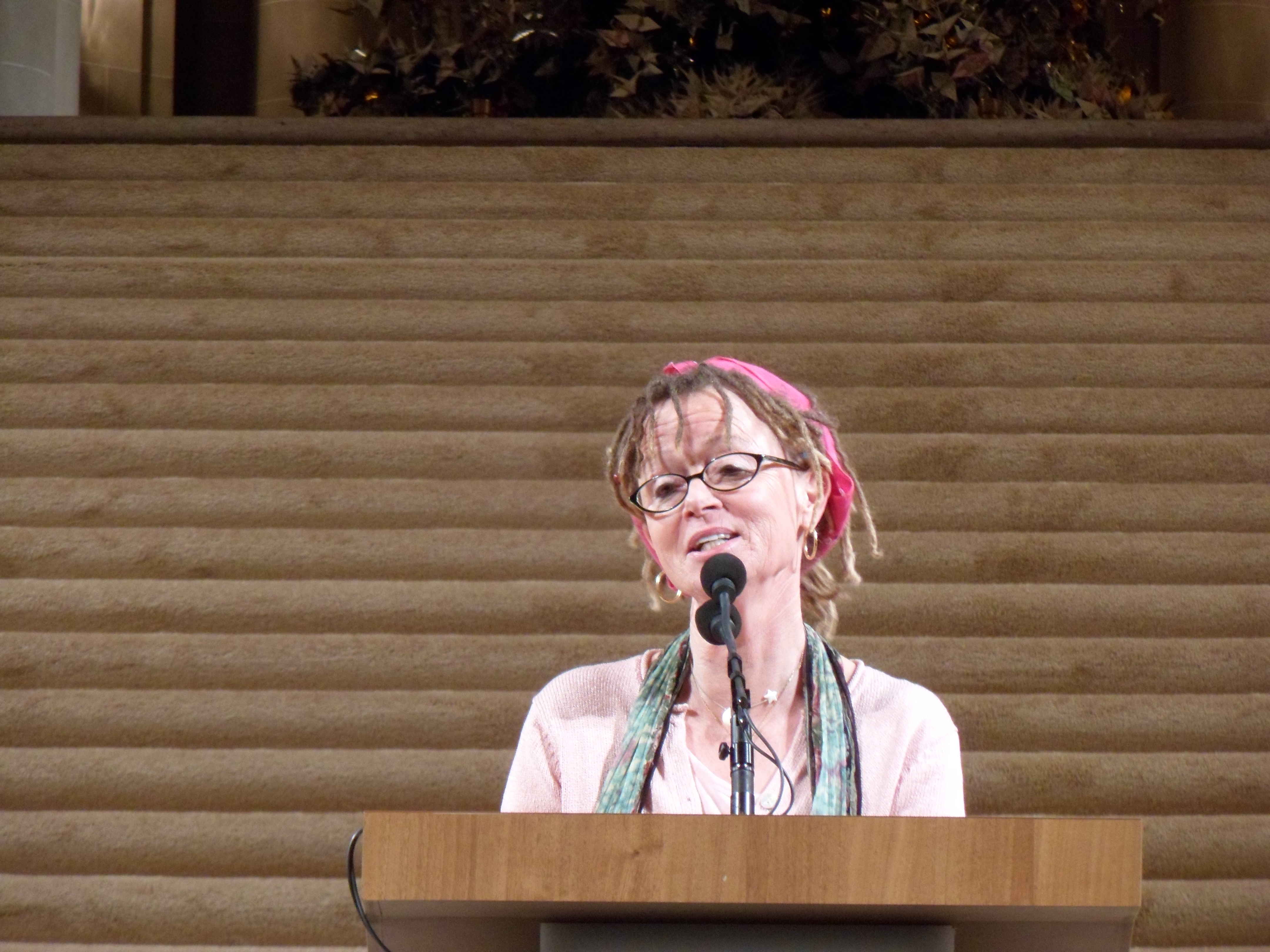 Anna Lamott at the lighting ceremony for the Rainbow World Fund's World Tree of Hope on 10 December 2013 in San Francisco City Hall